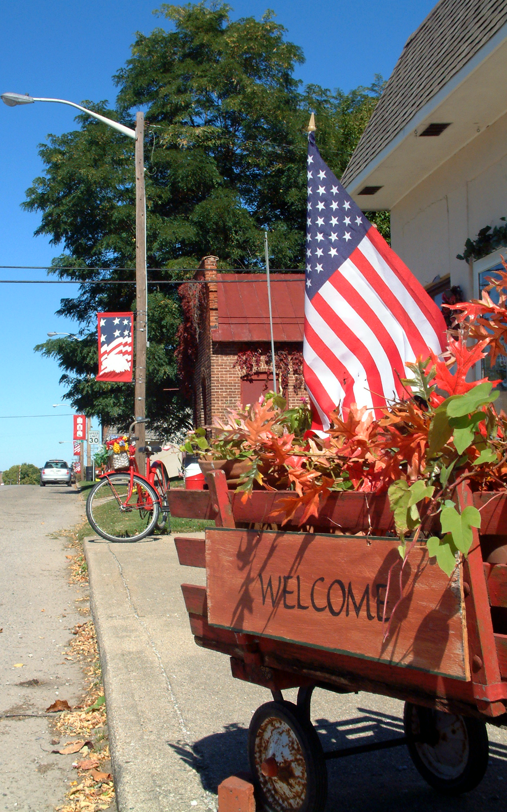 Storefronts in the small Midwestern town of West Lebanon, Indiana. This photo shows the view north along High Street.